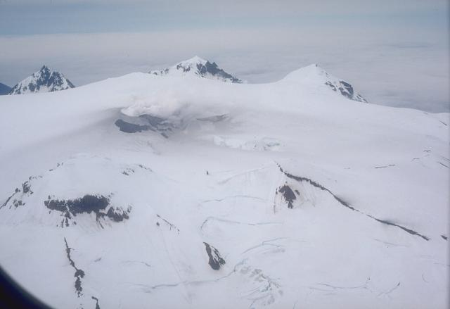 Makushin Volcano, a 2,036-m (6,680 ft)-high stratovolcano in the northern part of Unalaska Island in the eastern Aleutian Islands.